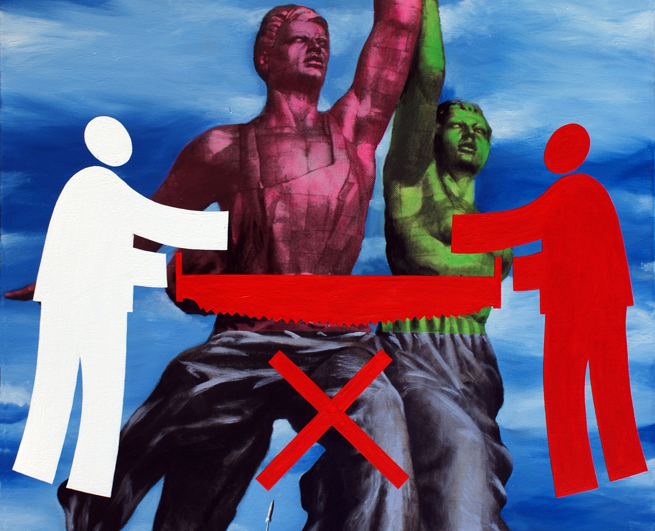 Igor A. Novikov: Oil on Canvas, 135 x 190 cm. 2009